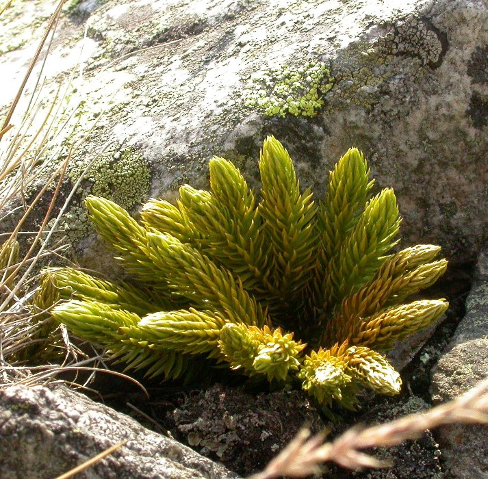 Huperzia selago f. imbricata, Krkonoše Mountains, Czech Republic